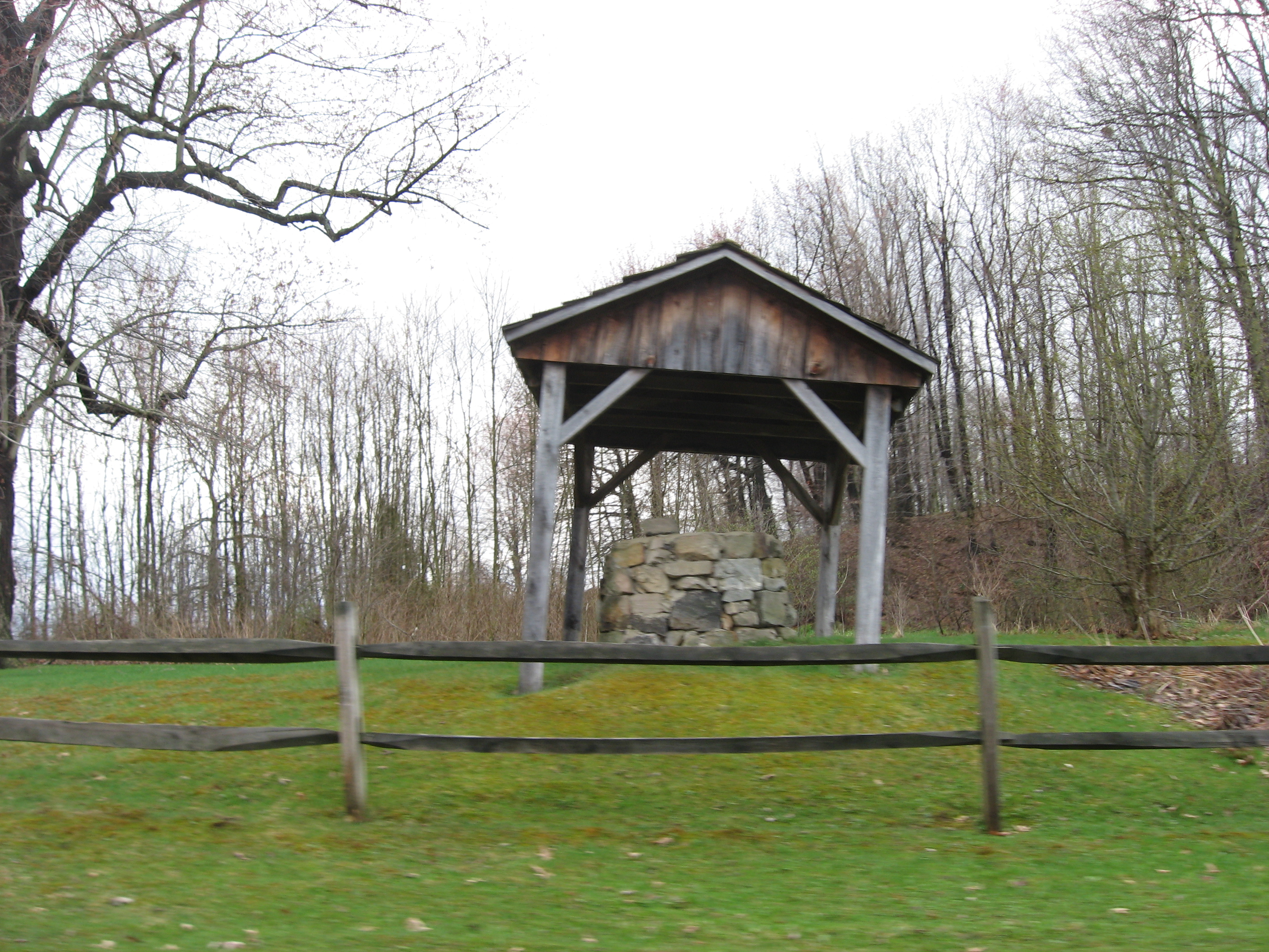 A small structure and fence at the William H. McGuffey Boyhood Home Site, located on the southern side of McGuffey Road east of State Route 616 in northwestern Coitsville Township, Mahoning County, Ohio, United States. Now part of a nature preserve, the site has been declared a National Historic Landmark.